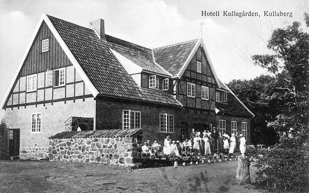 The new inn "Kullagården" after 1916, Höganäs municipality, Sweden